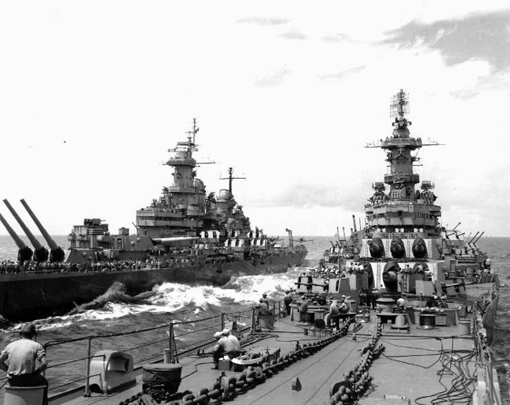 USS Missouri (BB-63) (at left) transferring personnel to USS Iowa (BB-61), while operating off Japan on 20 August 1945.